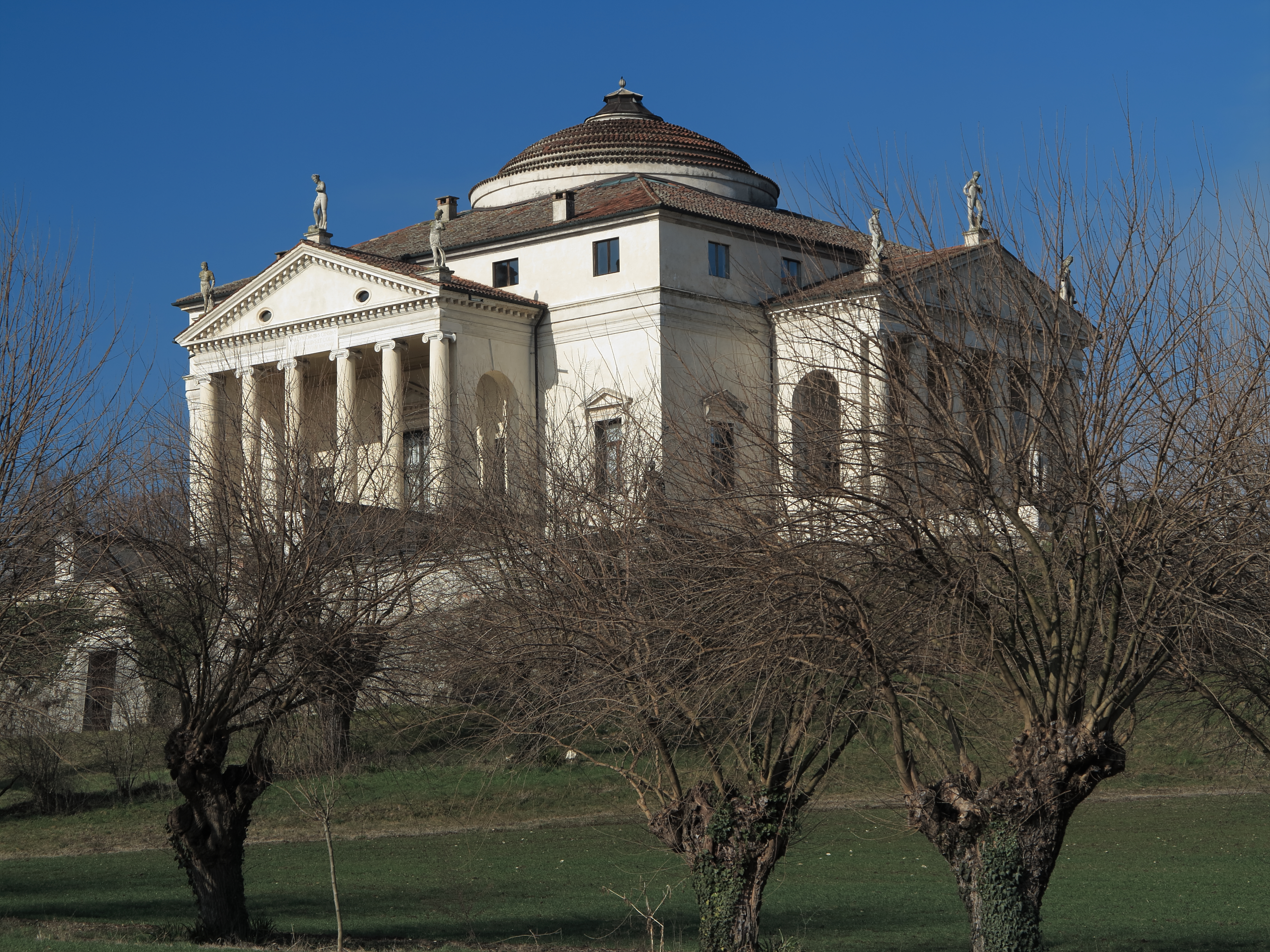 "Perhaps never architectural art has reached such a level of magnificence" (JW Goethe, during his visit to La Rotonda)